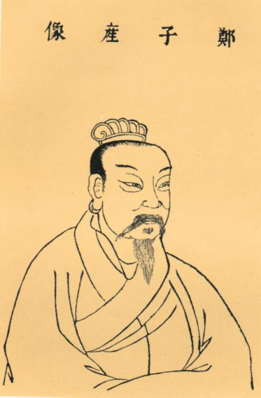 Zi Chan (子產, 子产), also known as Gongsun Qiao (died 522 BC), was the most outstanding statesman of the State of Zheng in ancient China during the Spring and Autumn Period. Born in Zheng to an aristocratic family, Zi Chan was a statesman of Zheng from 544 BC until his death. Under Zi Chan, Zheng even managed to expand its territory, a difficult task for a small state surrounded by several large states. As a philosopher, Zi Chan separated the domains of heaven and the human world, arguing against superstition and believing that humans should be grounded in reality.